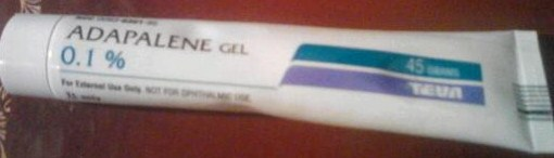 New tube of generic adapalene gel